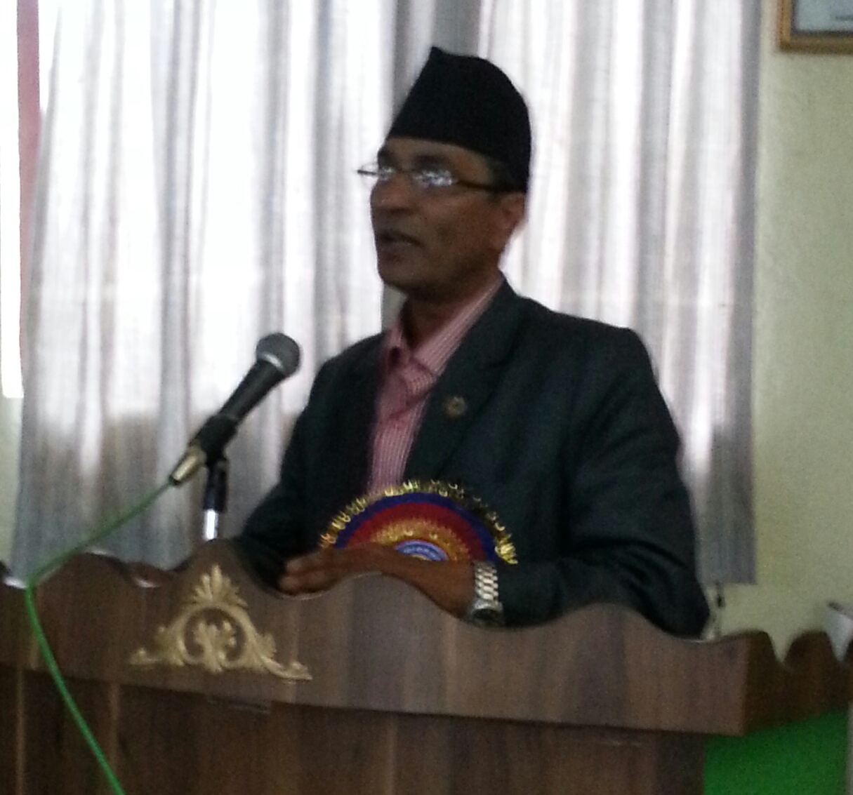 An image of Bidur Prasad Sapkota in 2014.